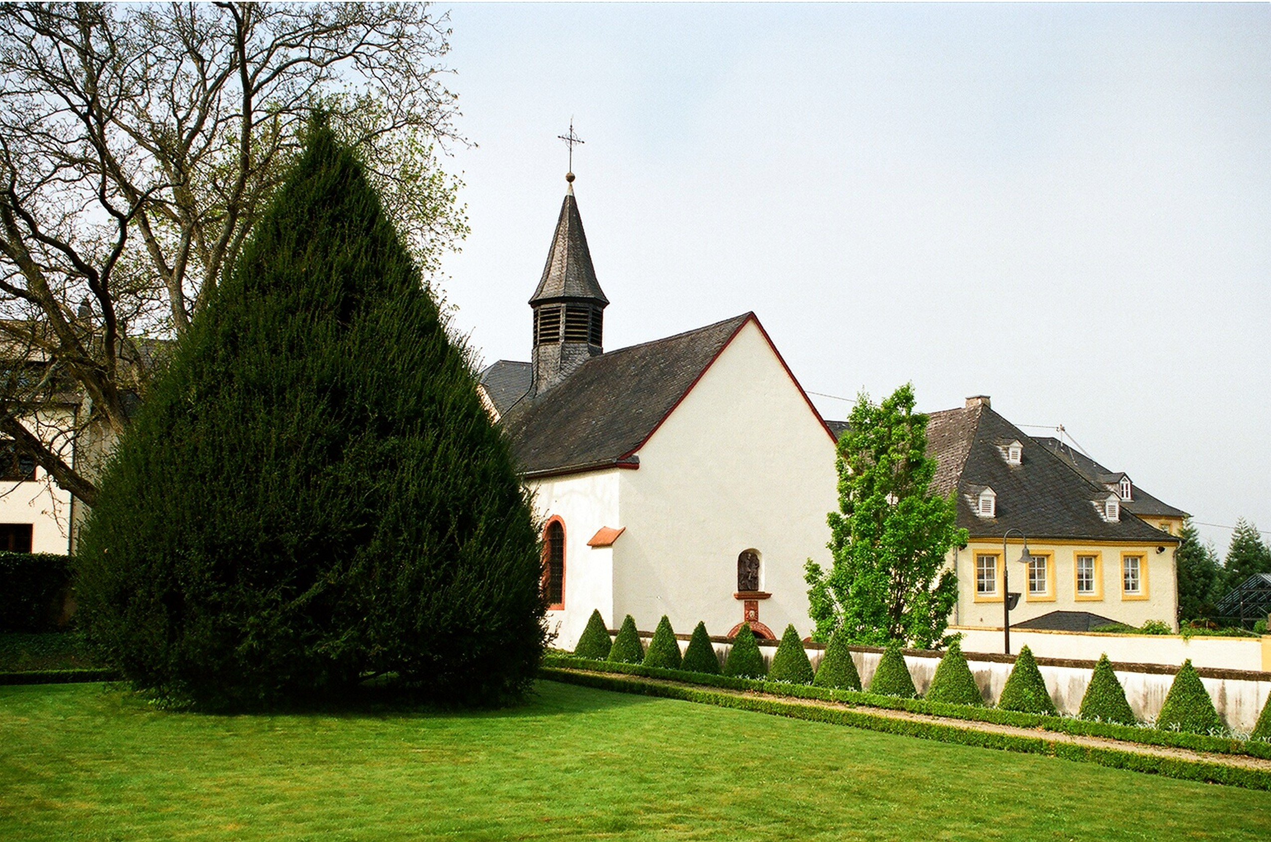 Perl (Mosel), the Quirinus Chapel